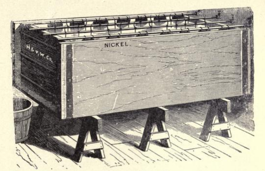 Electroplating cell.